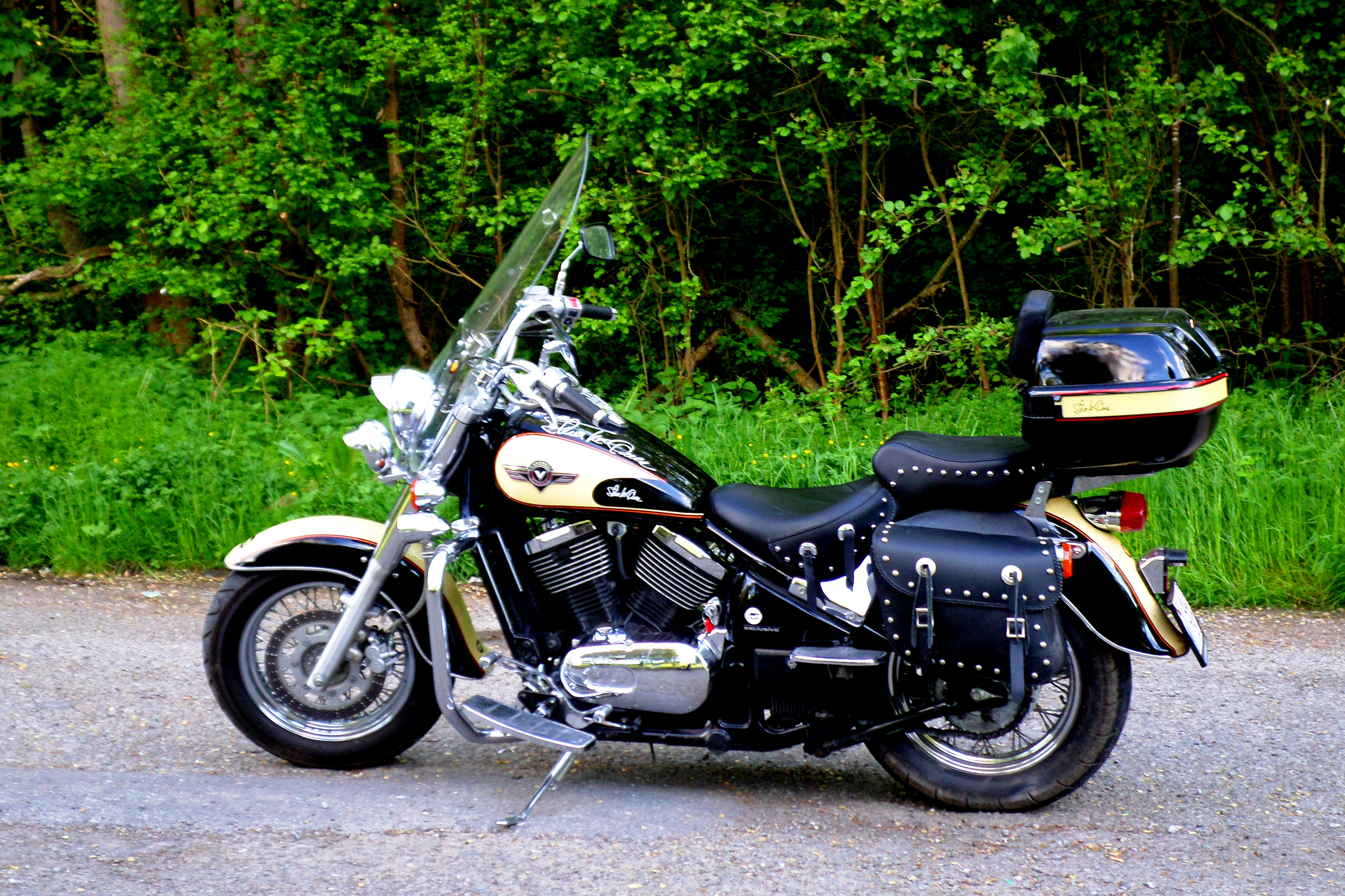 Kawasaki vulcan 800 modèle 1999, bi-ton noire et vanille.